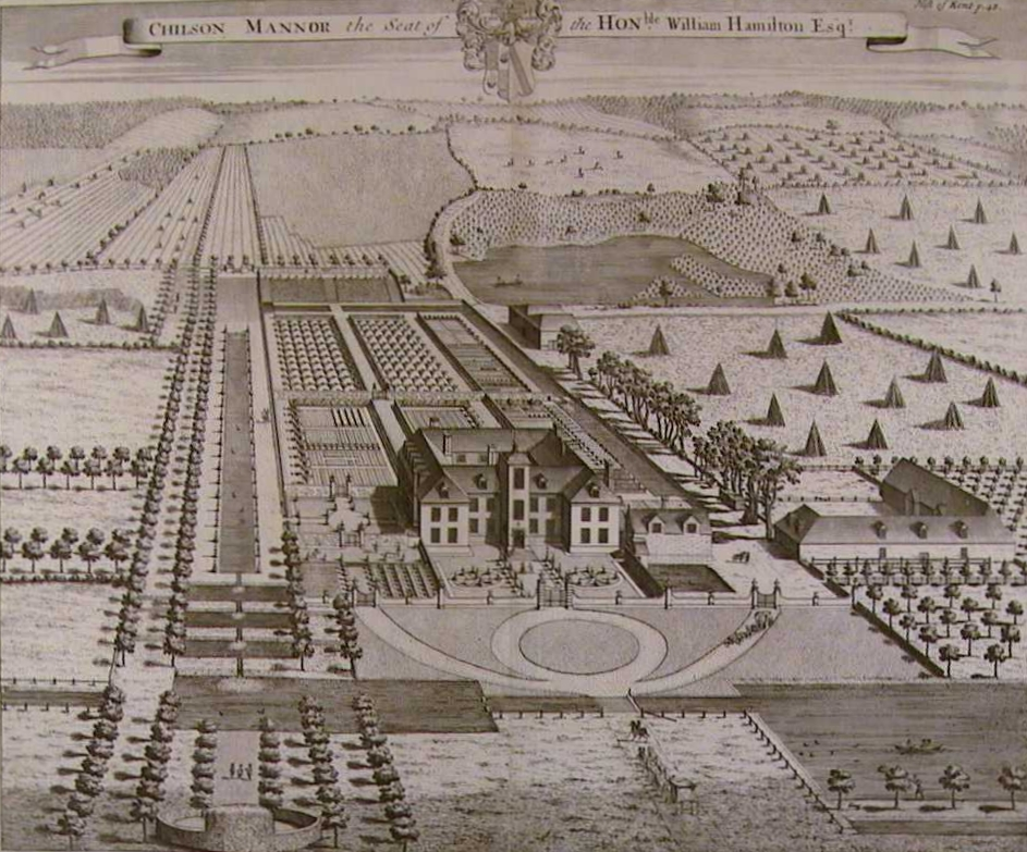 Chilson Mannor, the Seat of the Hon.ble William Hamilton Esq., now Chilston Park, Kent